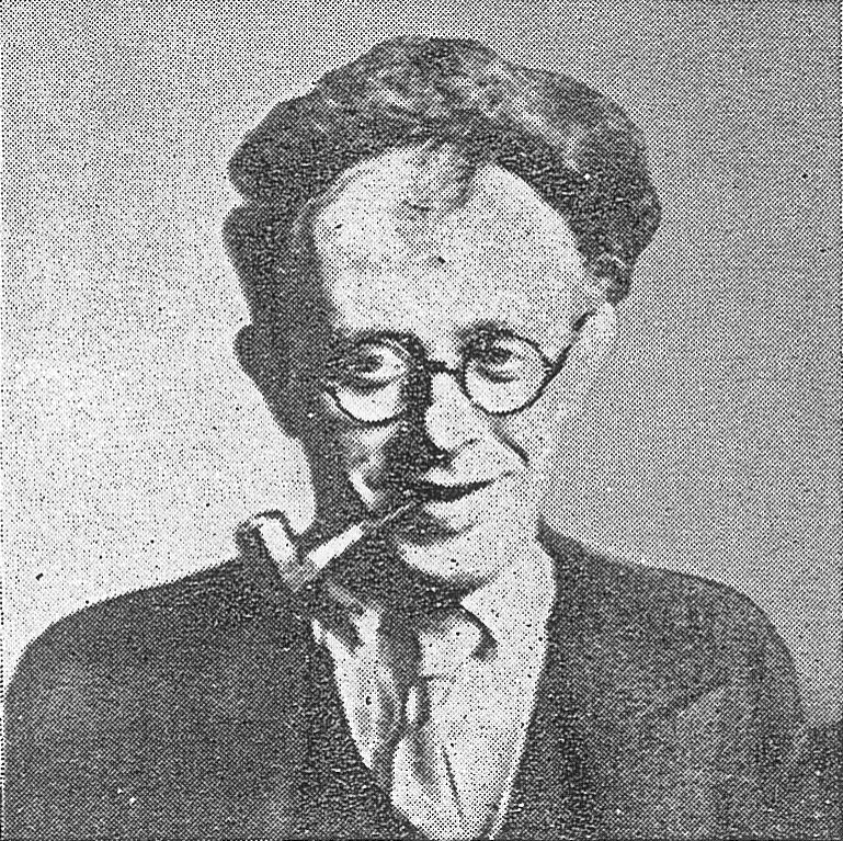 Karl Radek